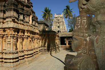 Someshware Temple